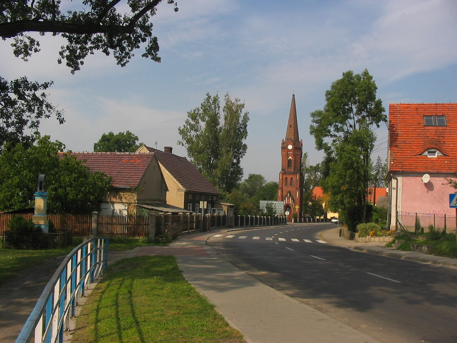 the district Przylep, city of Zielona Góra, Poland Author: Mohylek 11:32, 6 October 2006 (UTC)